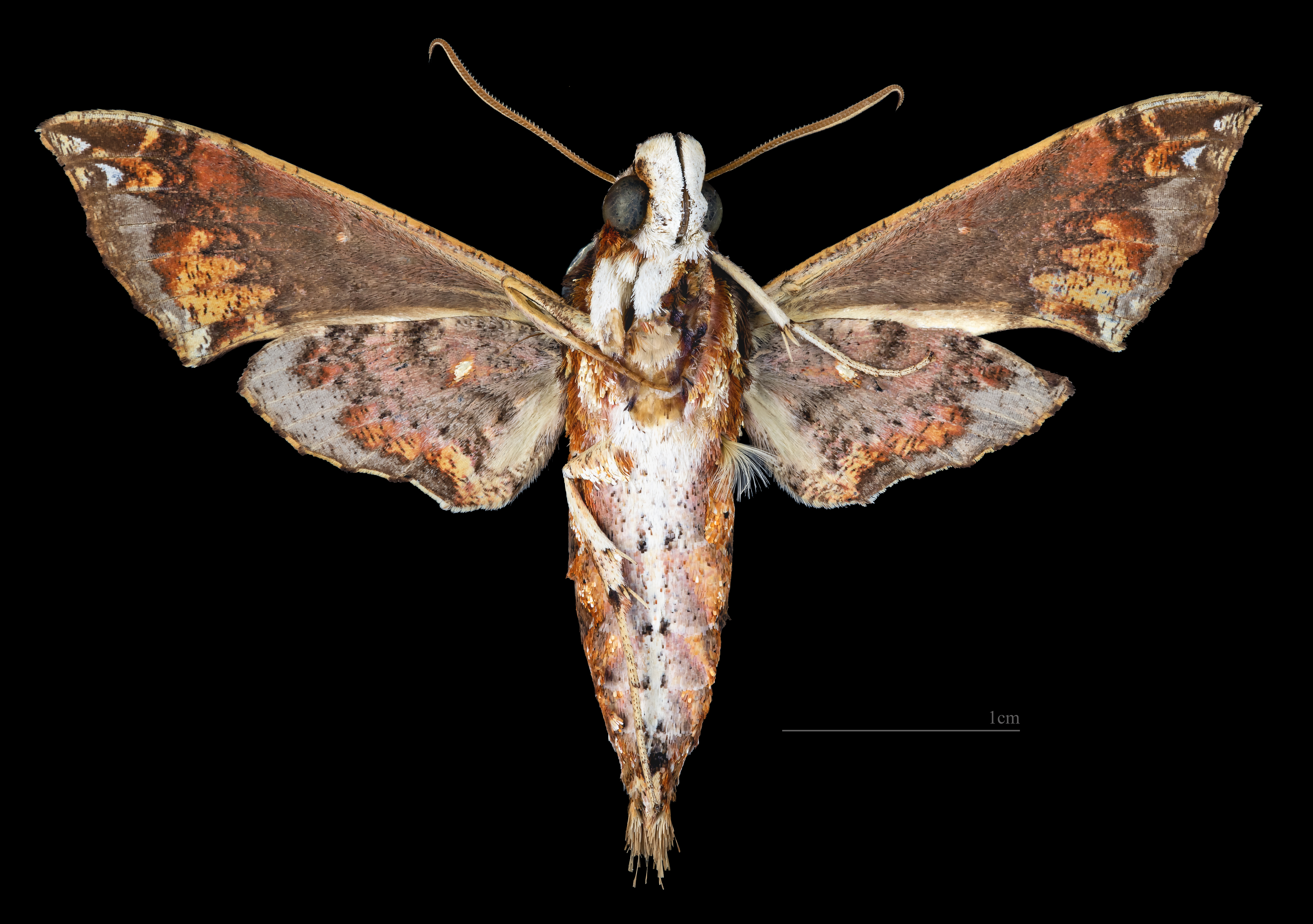 Eupanacra elegantulus - △ Ventral side Collection of the Mathematician Laurent Schwartz